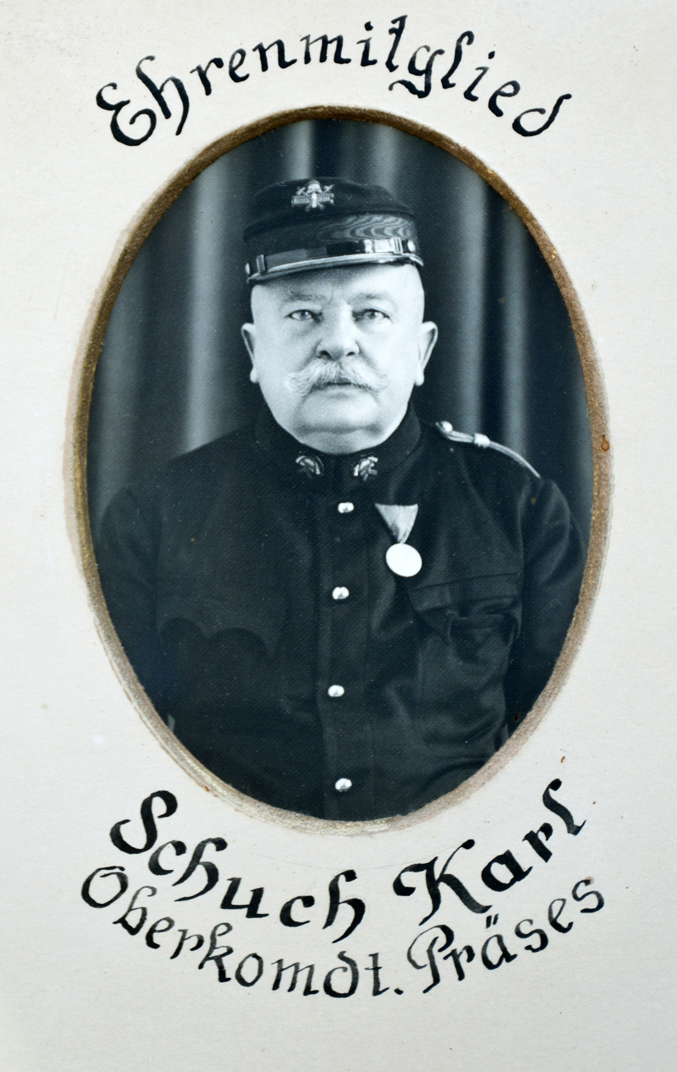 Commander of the Voluntary Firefighter Karl Schuh, February 14, 1904